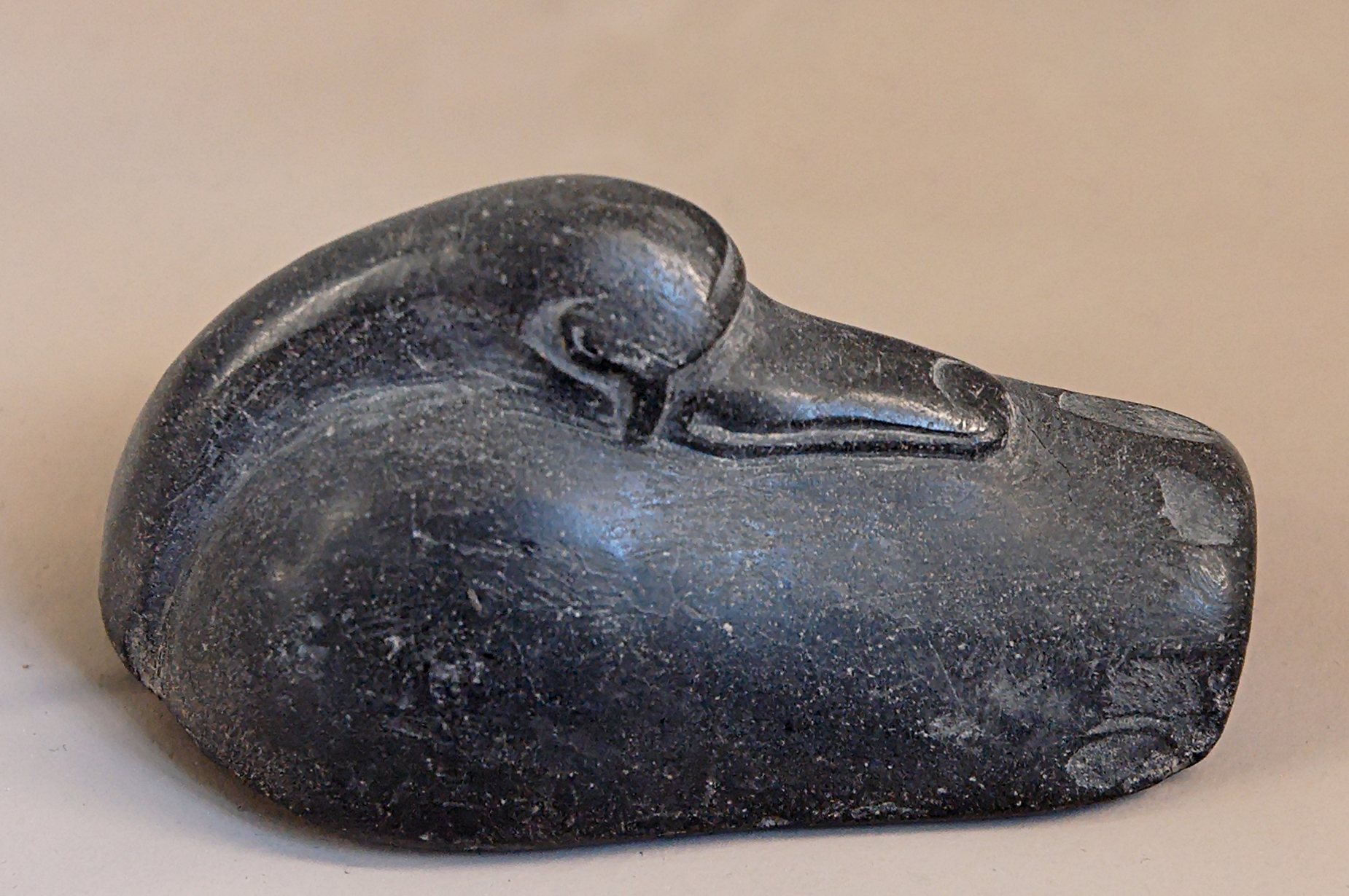 Duck-shaped weight with the inscription: “five minas”. Bituminous stone, Middle Elamite period, 2nd millenium BC. From Susa.